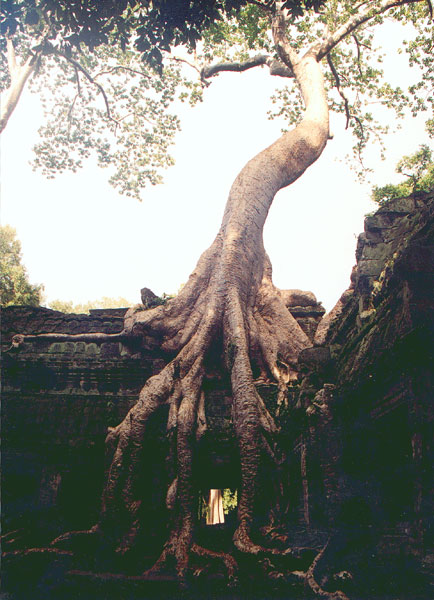 Trunk and roots of Tetrameles nudiflora, at Ta Prohm temple in Angkor (Cambodia)